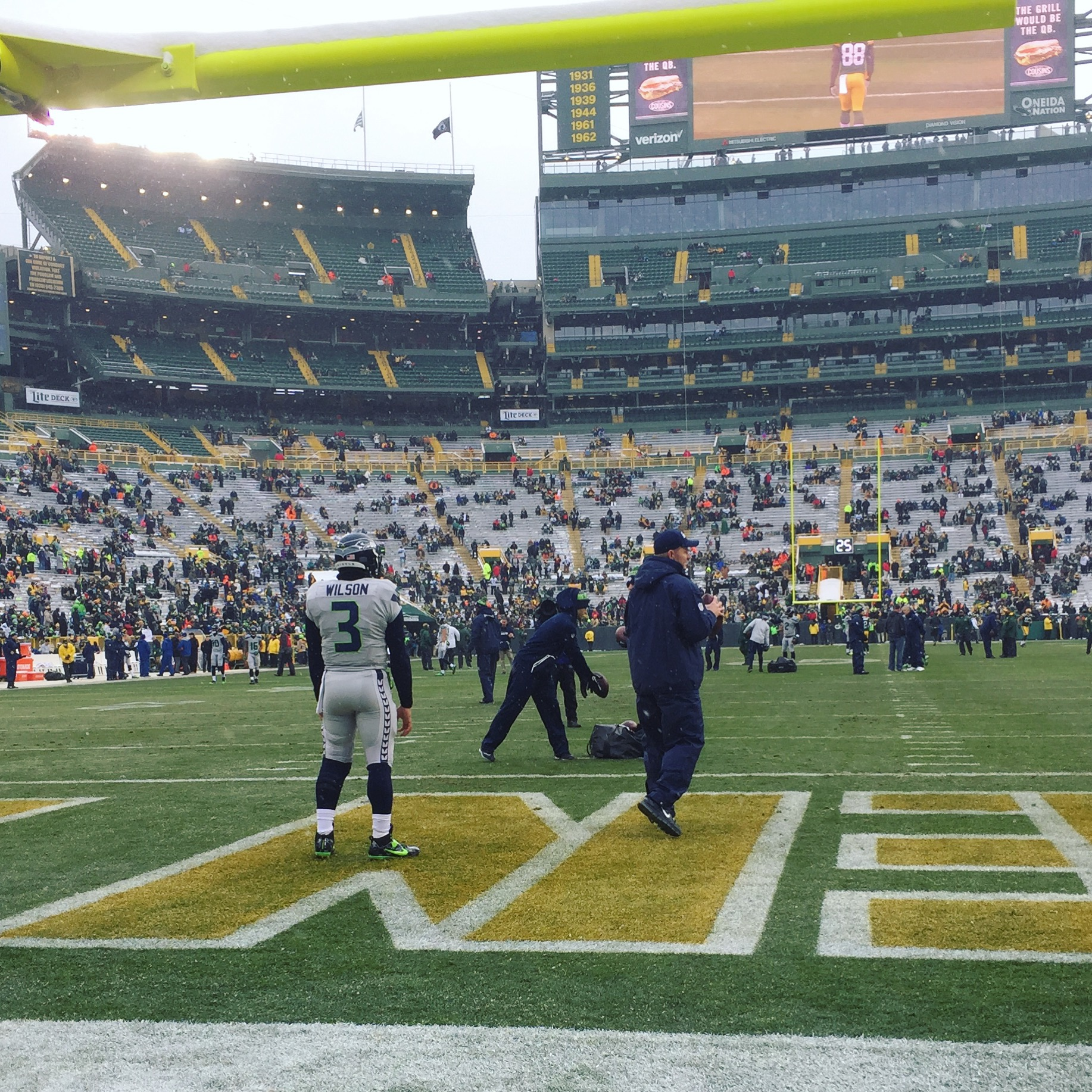 Russell Wilson at Lambeau Field, Dec 2016